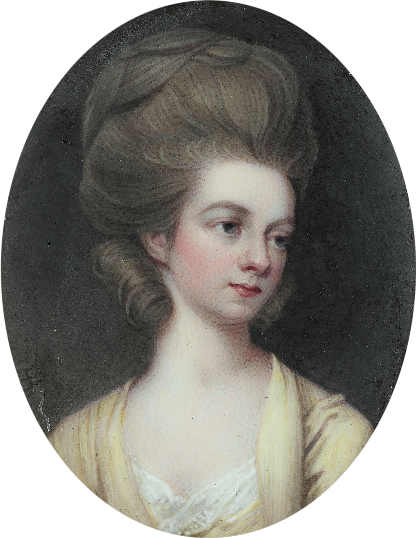 Mary Manners-Sutton née Thoroton (1783-1829) enamel 4.7 cm high signed obverse: HB inscribed on counterenamel: Mrs Manners Sutton / London / Octr 1829 / Painted by Henry Bone / R.A. Enamel Painter / to His Majesty &c &c / after a Miniature / F